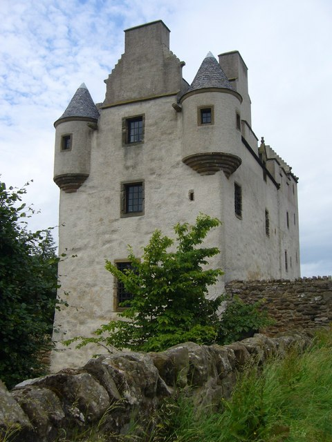 In 'The Fortified House In Scotland' the author Nigel Tranter quotes an English source recounting how the occupants of the castle started shooting at the invaders on the day before the Battle of Pinkie Cleugh (1547) "with hand-guns and hakbutts till the battle lost, when they pluct in their peces lyke a dog his taile, and couched themselves within, all muet; but by and by the hous was set on fyre and they, for their good will, brent and smoothered within". It was the second major military disaster suffered by the Scots in the Anglo-Scottish Wars of the 16th century, just one generation after Flodden. The slaughter appears to have prompted the following comment which was published two years later. "Inglis men ar cruel quhene thai get victorie, and Scottis men ar merciful quhene thai get victorie. And to conclude, it is unpossibil that Inglis men and Scottis men can remane in concord undir ane monarch or ane prince, because their naturis and conditiounis ar as indefferent as is the nature of scheip and volfis [wolves]." -- Anonymous, The Complaynt Of Scotland, 1549